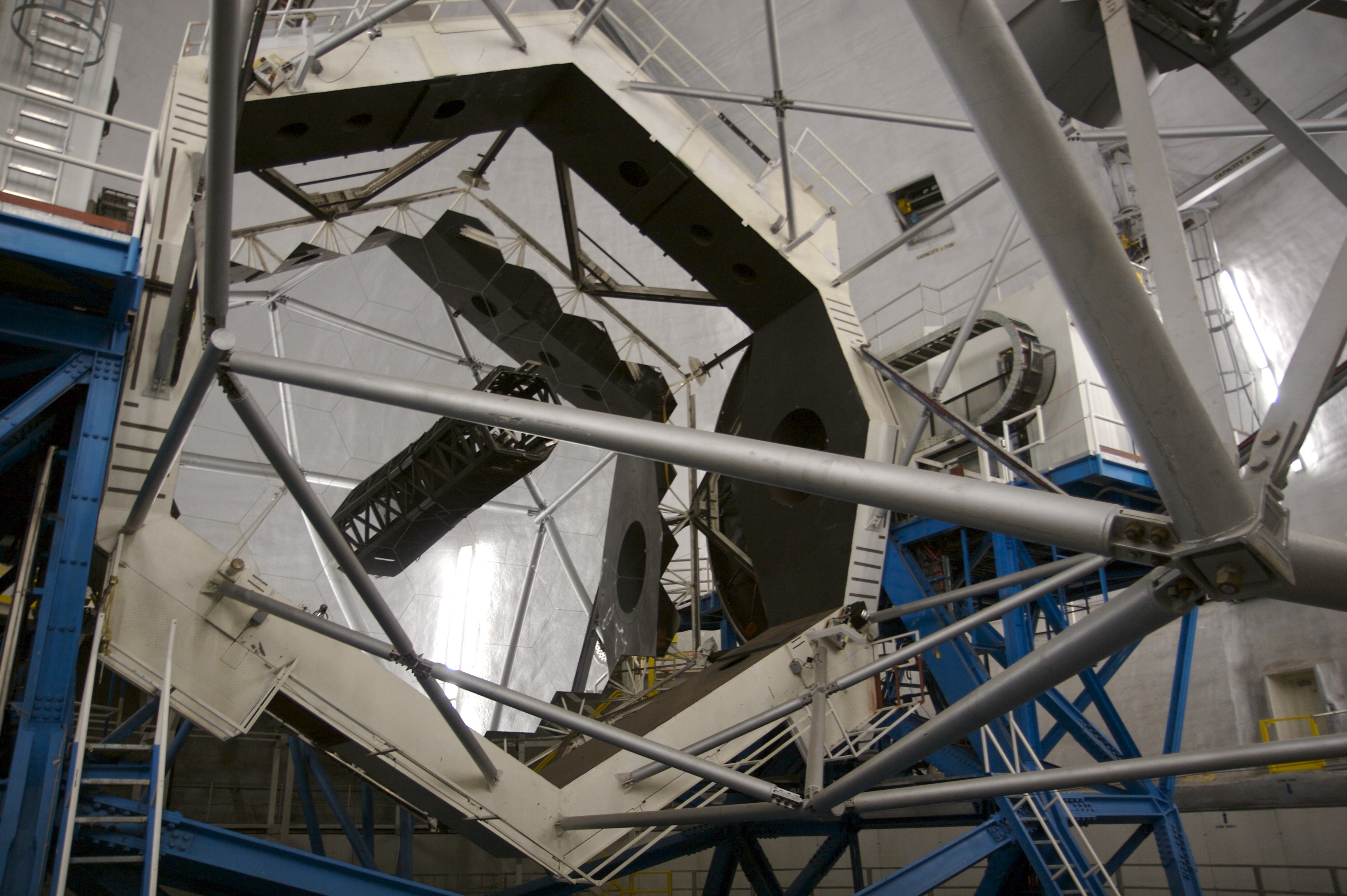 The primary mirror assembly. There are two 10 meter telescopes in the observatory - the data is combined in a room downstairs between the two buildings.